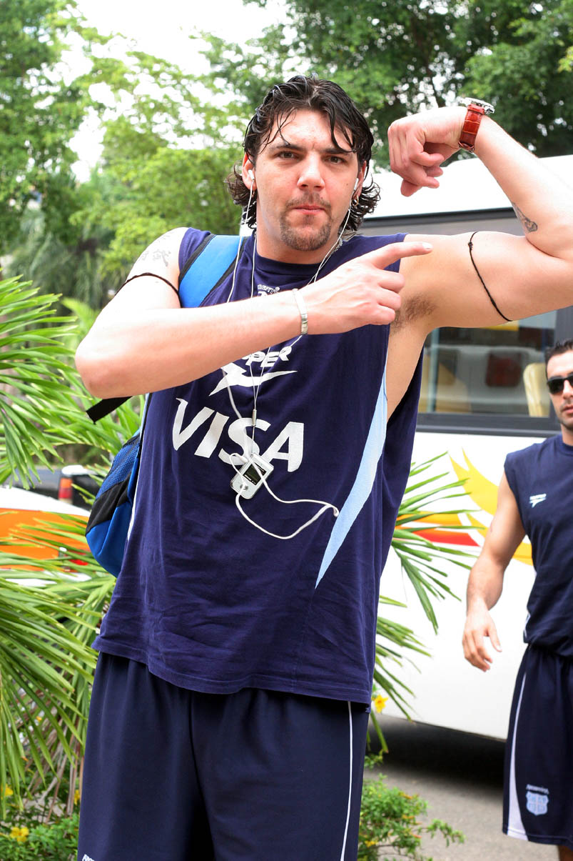 Argentinian Center Román González after arriving from a trip with the National Basketball Team of Argentina